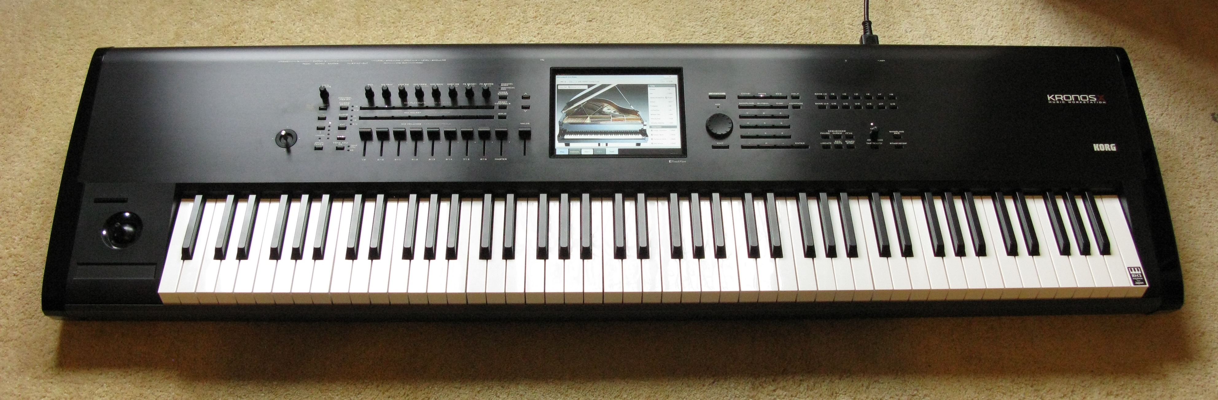 Korg Kronos X 88 synthesizer